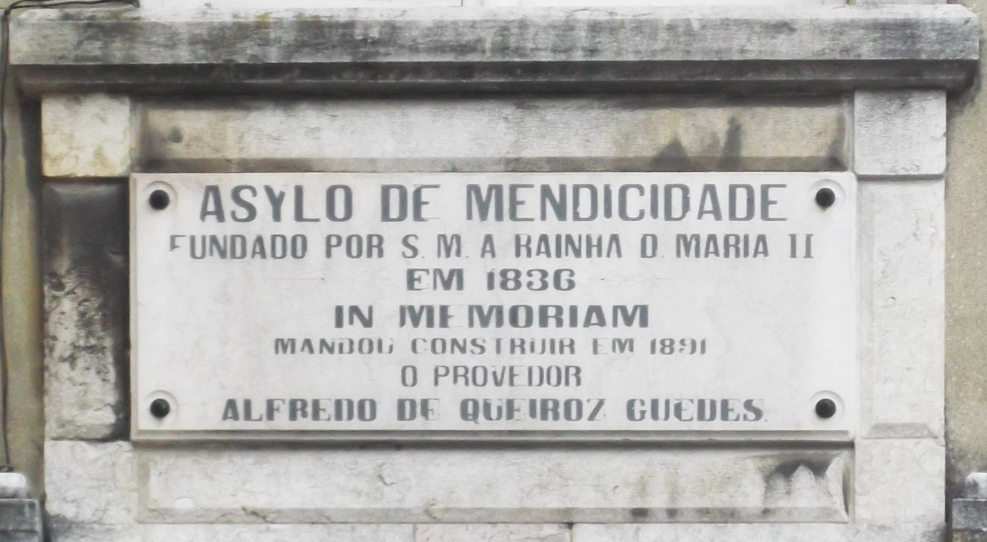 Plaque in the Hospital de Santo António dos Capuchos, in Lisbon, Portugal, from the time it was the Lisbon Poorhouse (established in 1836 by Queen Maria II)